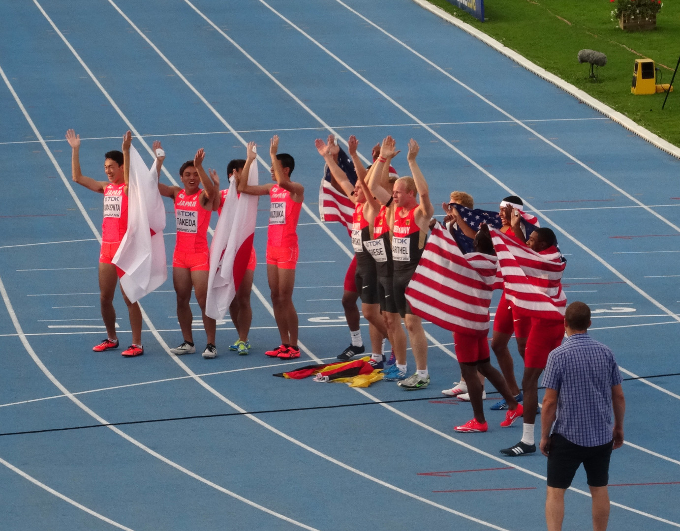 2016 IAAF World U20 Championships in Bydgoszcz, 4x100m relay men final